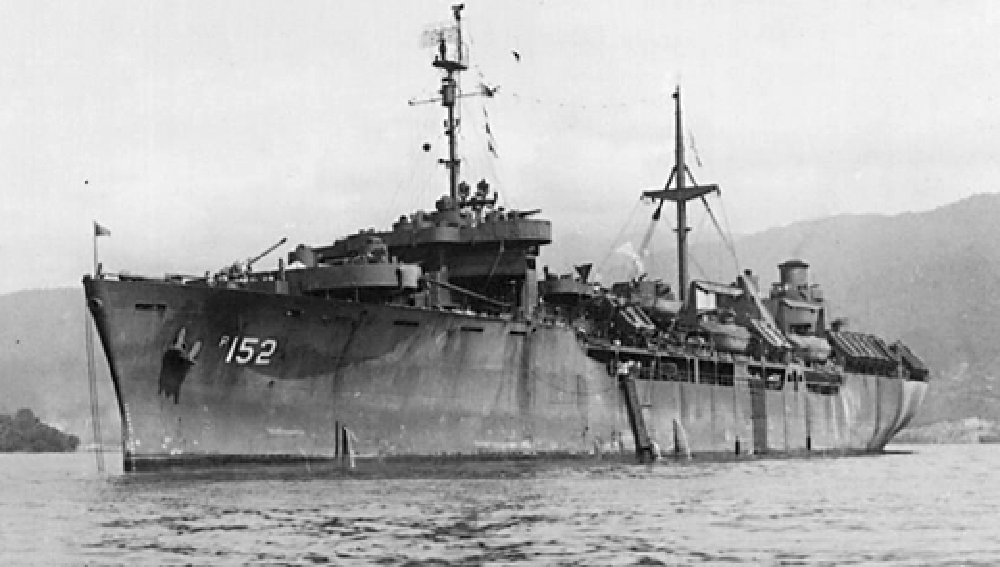 USS General Omar Bundy (AP-152) was a General G. O. Squier-class transport ship for the U.S. Navy in World War II.